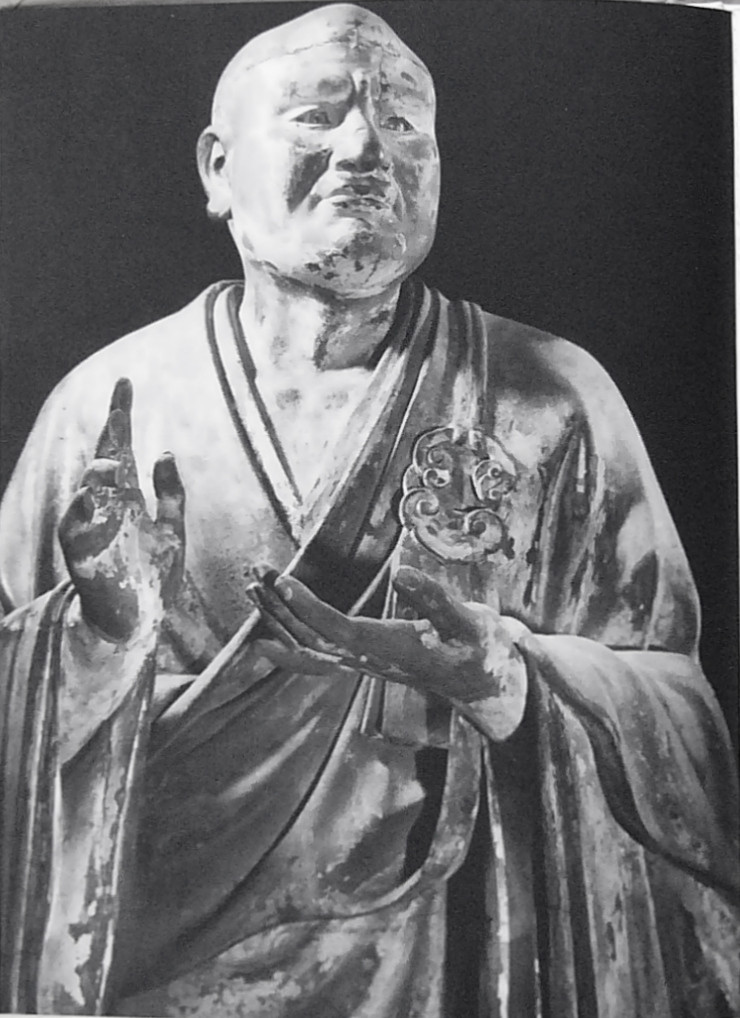 Seshin (Vasubandhu)(indian buddhist 4-5th century), Wood, 186cm height, about ACE1208,The Northern Octagonal Hall of Kofukuji Temple, Nara, Japan